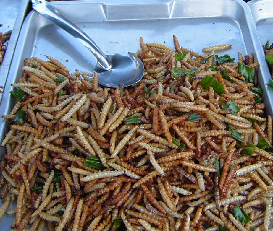 Deep fried bamboo worms on a plate